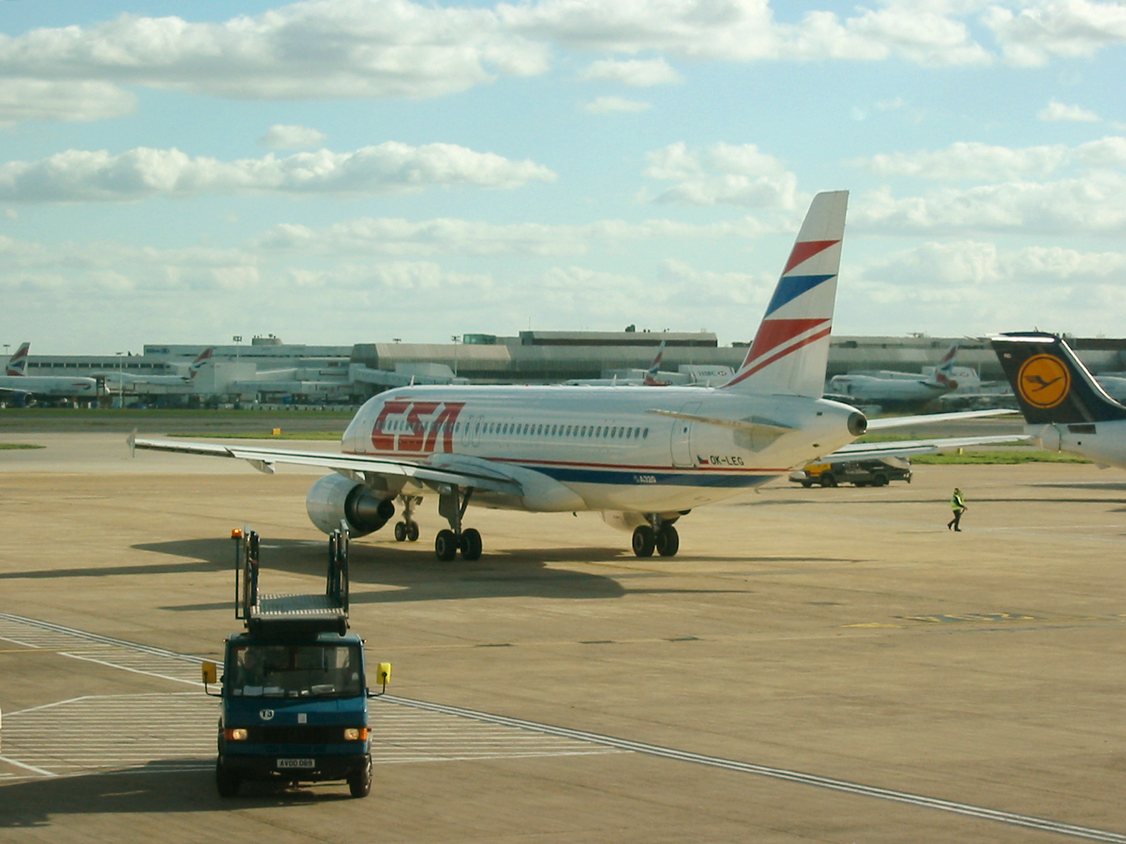 ČSA Airbus A320 in London Heathrow airport. Photo by Asteriontalk